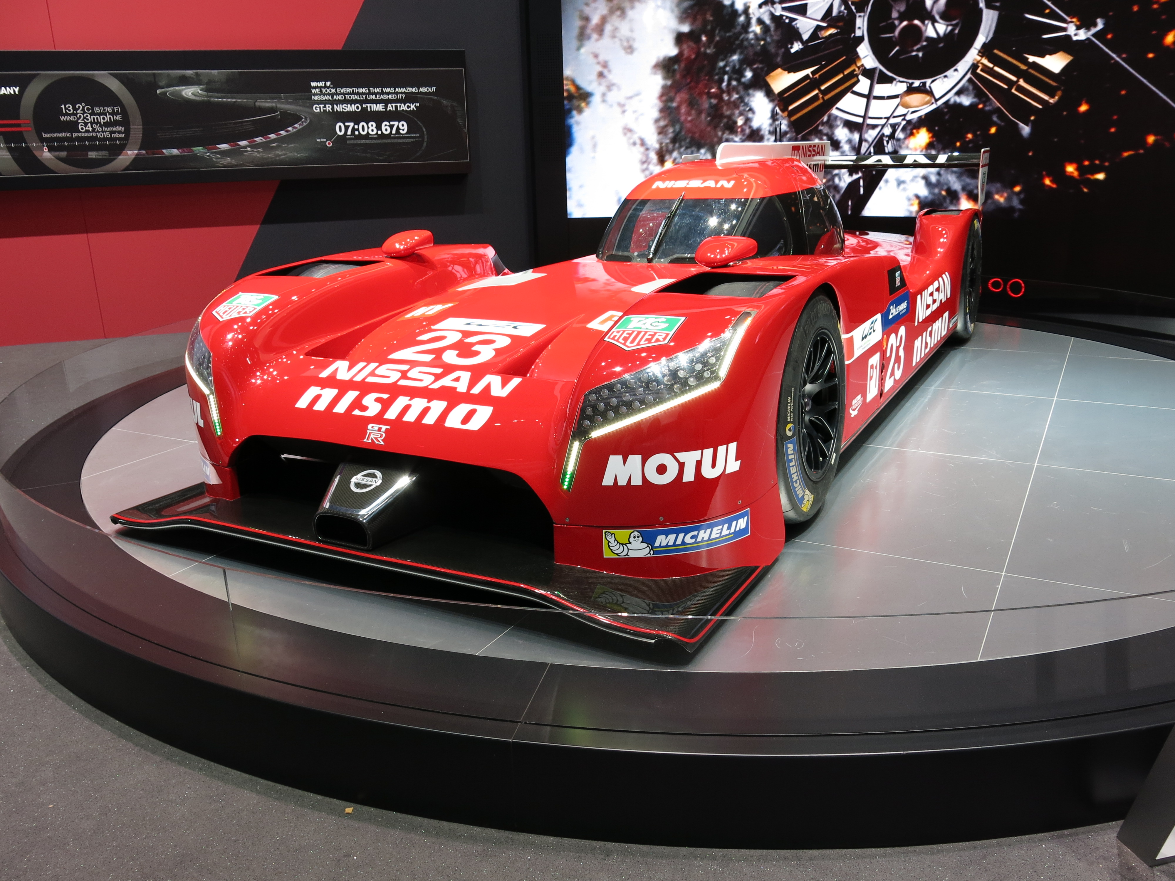 Geneva Motor Show 2015 (photo taken on the first press day)